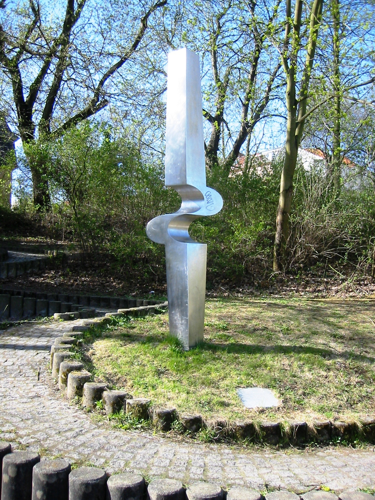 Sculpture "compression-harmony" by Karl Menzen in the Park "Old Park"in Berlin-Tempelhof